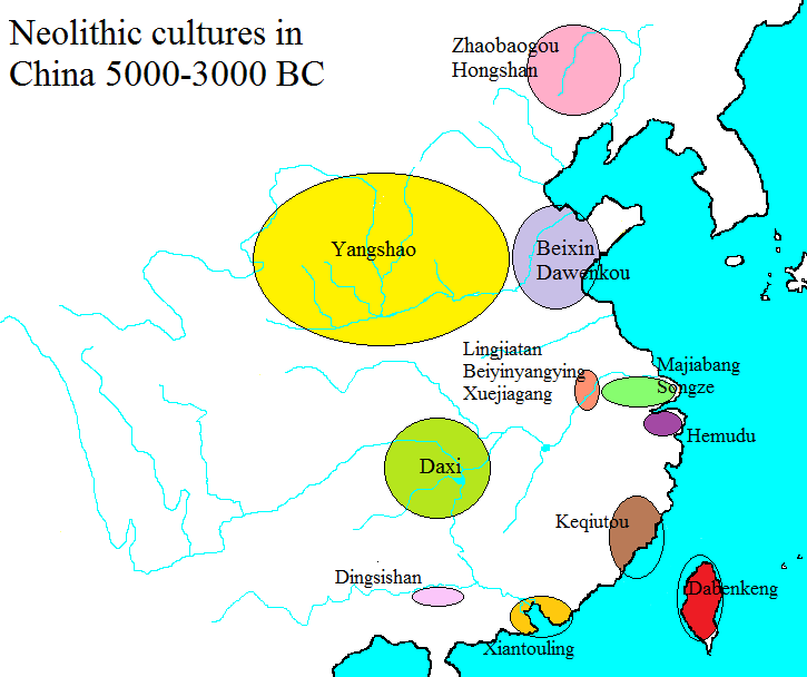 Map of Chinese neolithic cultures 5000 - 3000 BC